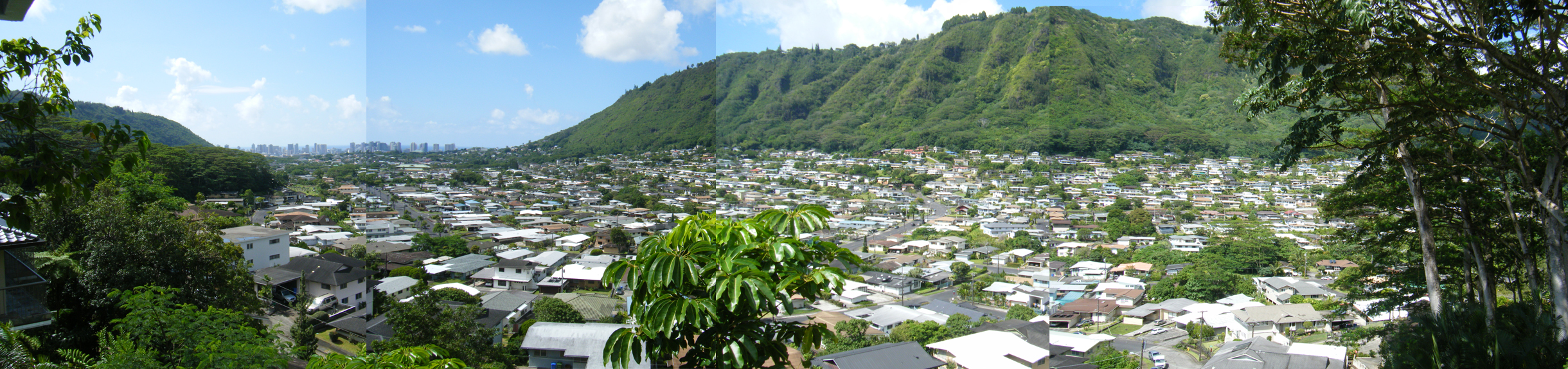 Stitched panoramic of Manoa Valley facing downtown Honolulu